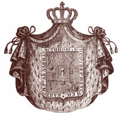 Coat of arms of Catholicos Patriarch Anton II of Georgia. From the Nizhny Novgorod State Regional Universal Scientific Library (НГОУНб).